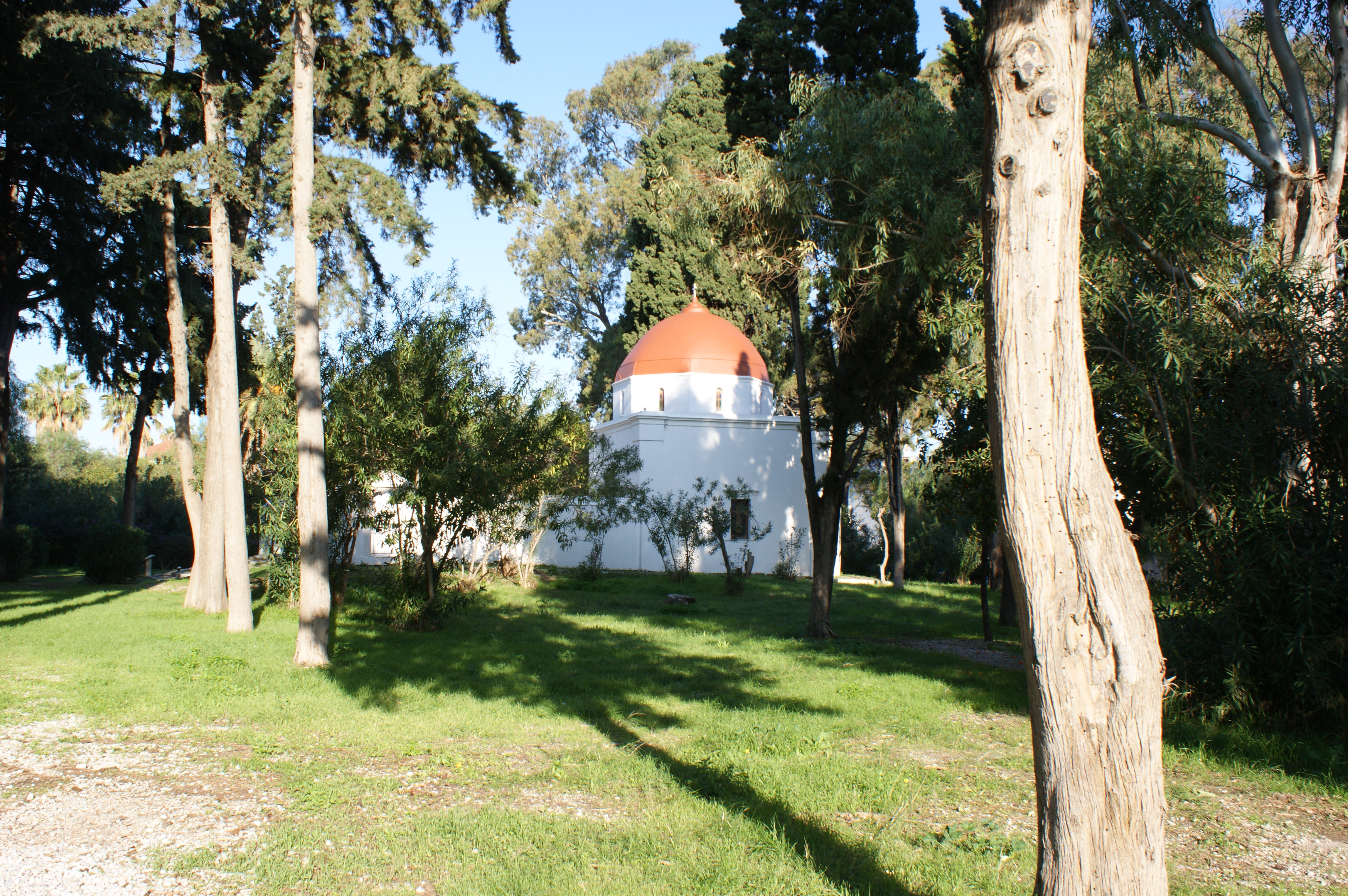 December 2019 in the city of Kos on the Greek island of Kos. Church St Georg tou Arrenagogeiou.